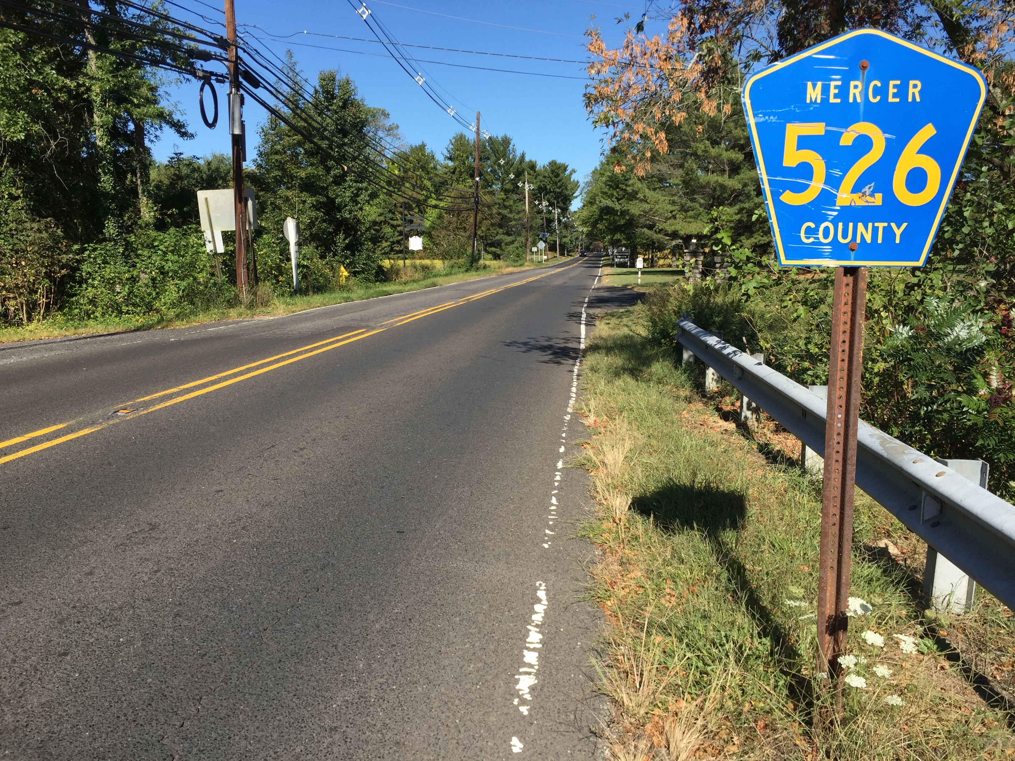 View west along Robbinsville-Allentown Road (Mercer County Route 526) just west of Indian Lake in Robbinsville Township, Mercer County, New Jersey